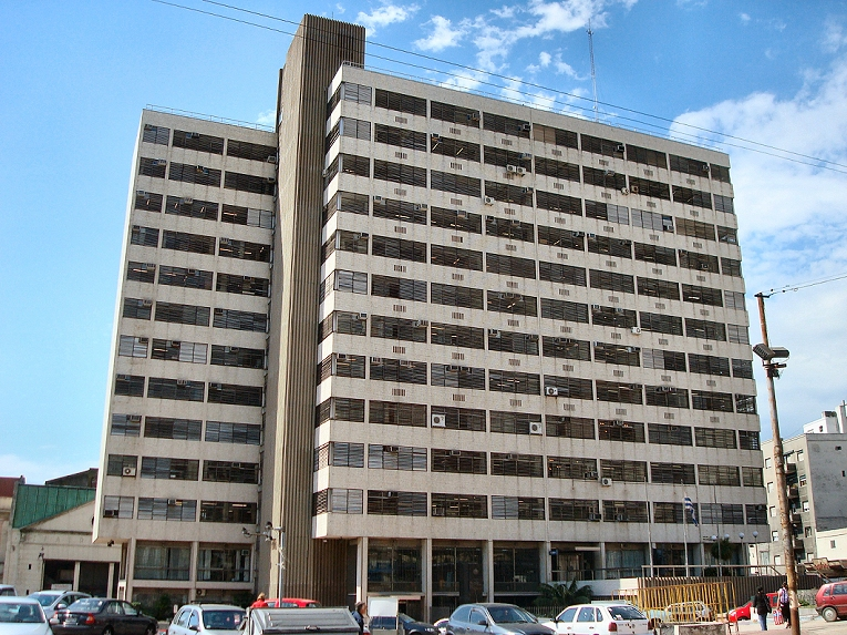 Banco Central del Uruguay, Ciudad Vieja, Montevideo, Uruguay. It also houses the Numismatic Museum.